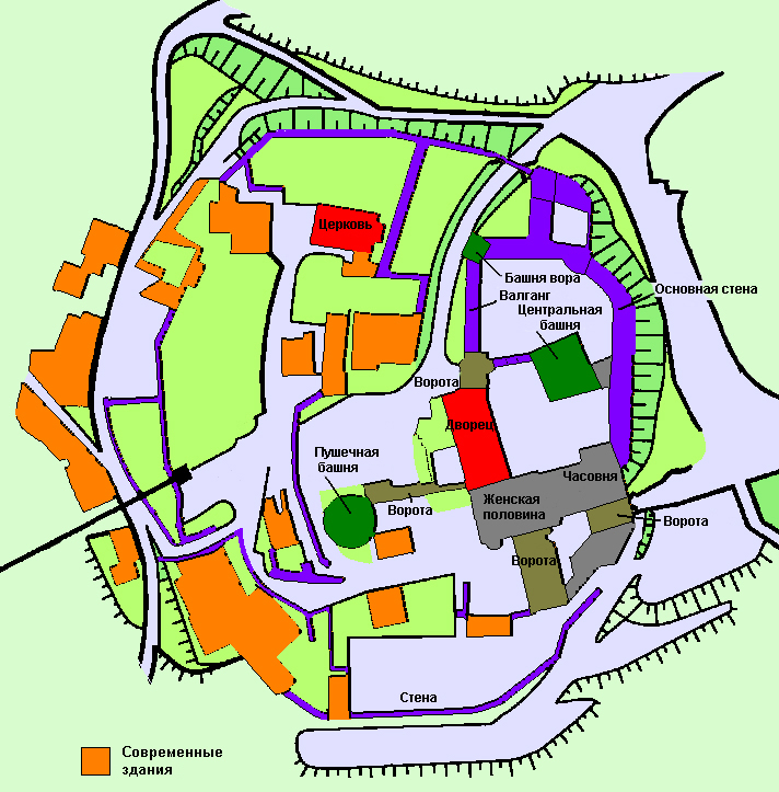 Plan of Schloss Burg